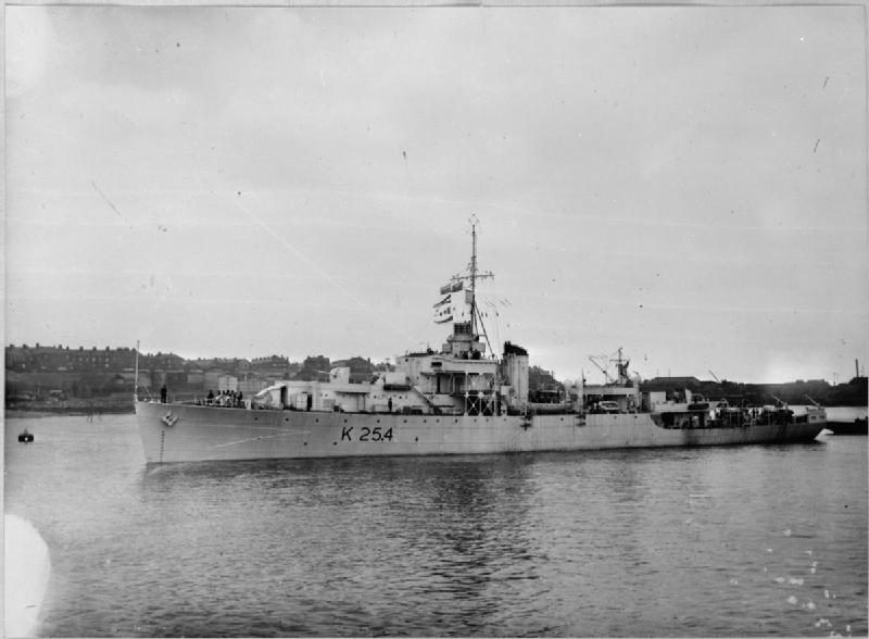 Photograph of River class frigate HMS Ettrick.